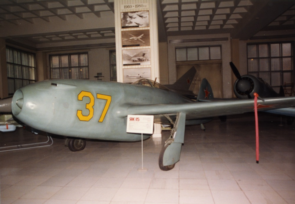 PictionID:42251843 - Title:Yakovlev Kak-15 Yakovlev Yak-15 Yakovlev Museum Moscow Sep93 4 - Catalog:15_003212 - Filename:15_003212.tif - ---- Image from the Charles Daniels Photo Collection album "Moscow Air Museums" which contains images Mr. Daniels took while visiting Russia----PLEASE TAG this image with any information you know about it, so that we can permanently store this data with the original image file in our Digital Asset Management System.----SOURCE INSTITUTION: San Diego Air and Space Museum Archive